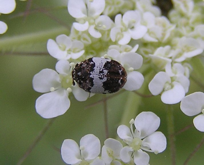 Anthrenus munroi from Jerusalem, Israel.